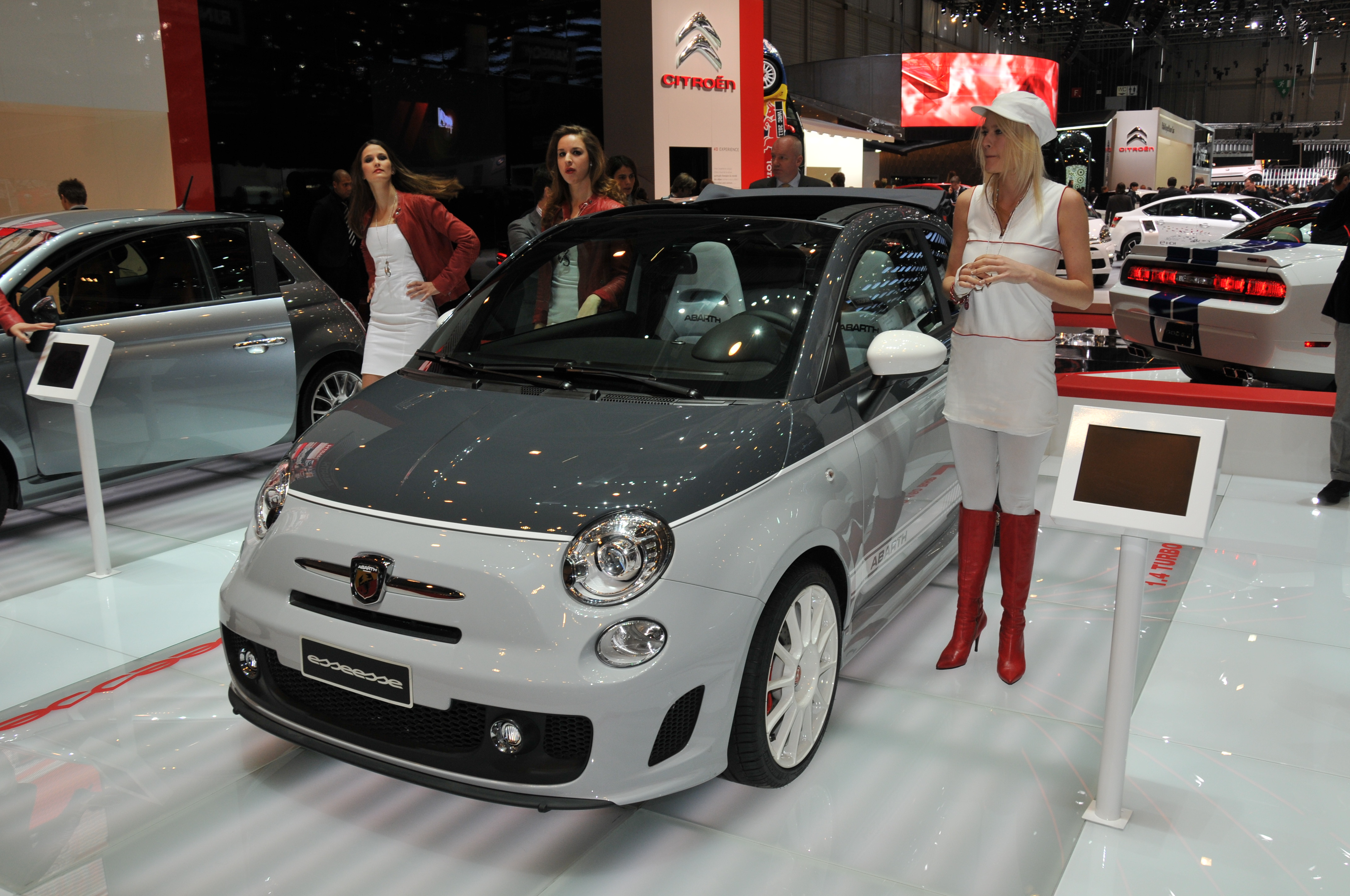 The Abarth esseesse at the 2011 Geneva Motor Show. For more info and photos